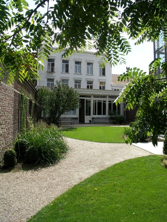 The Garden of Talbot House in Poperinge